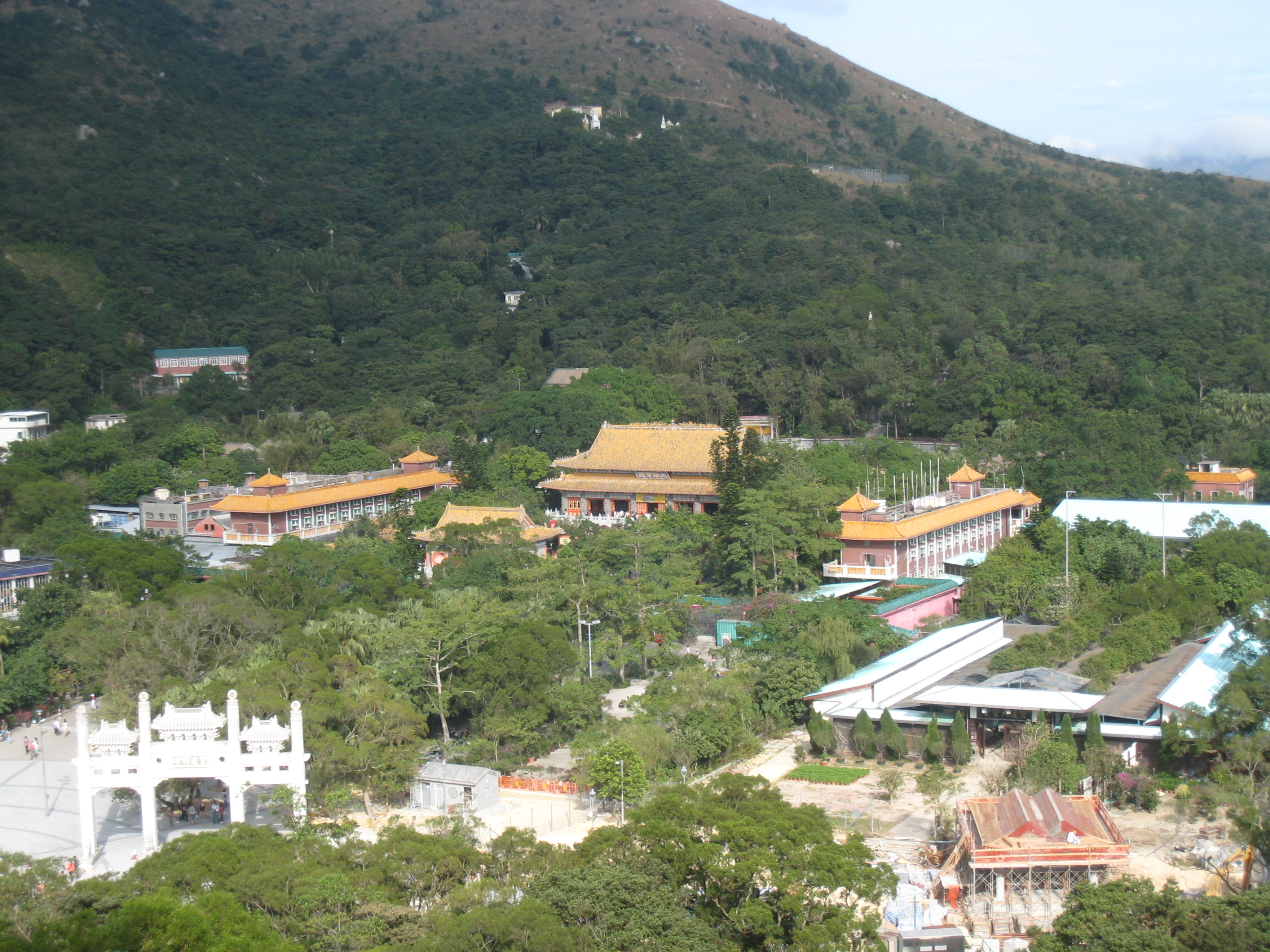 Po Lin Buddhist temple/monastery in Ngong Ping, Lantau Island, Hong Kong 客家語/Hak-kâ-ngî: Paau-Lin-Chi. Hiang-gang